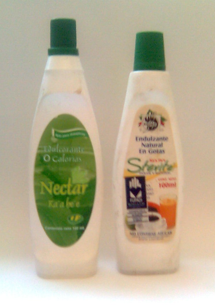 Two brands of locally made stevia extract on sale at a supermarket in Paraguay